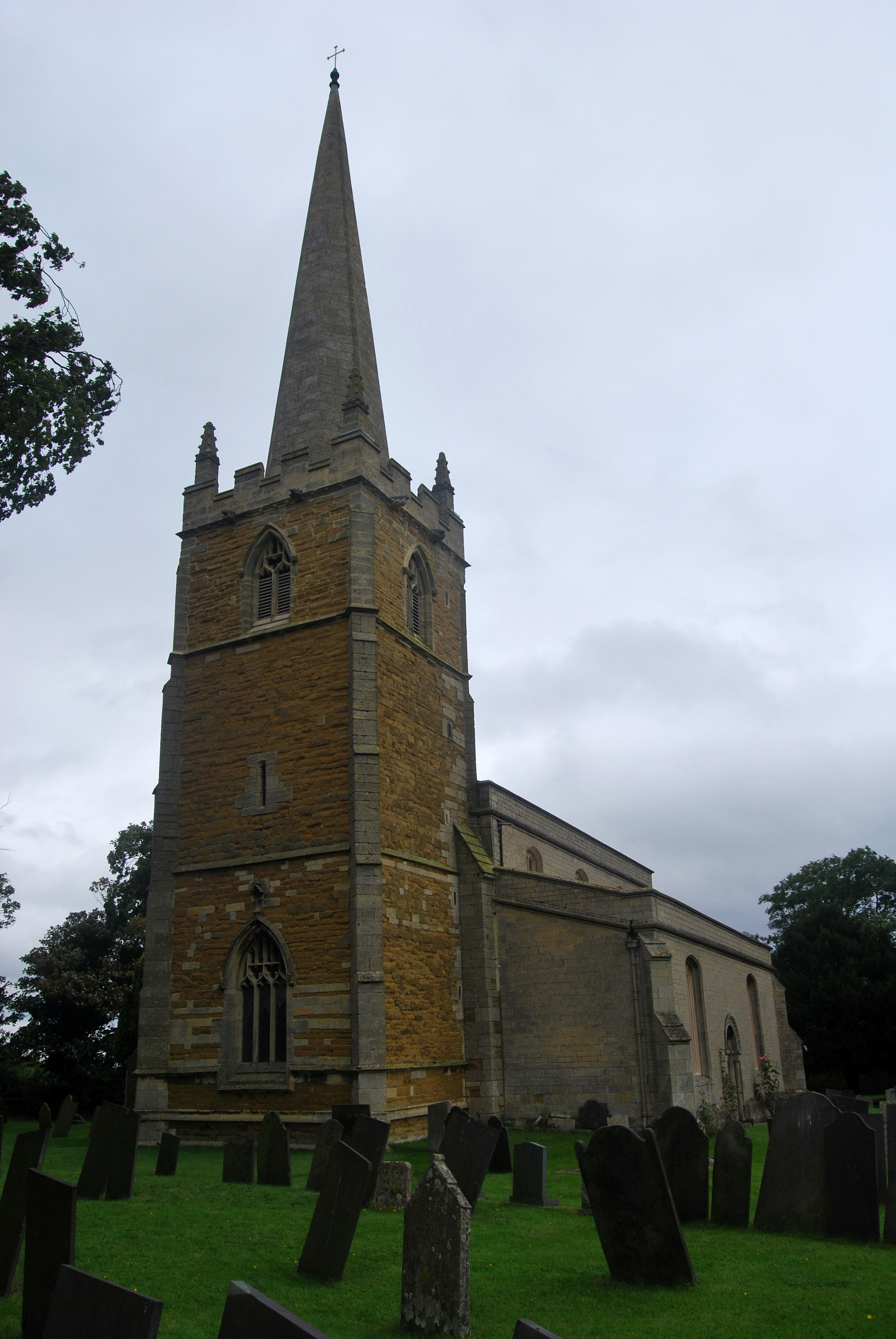 St Peter & St Pauls' Church Barkestone Leicestershire.